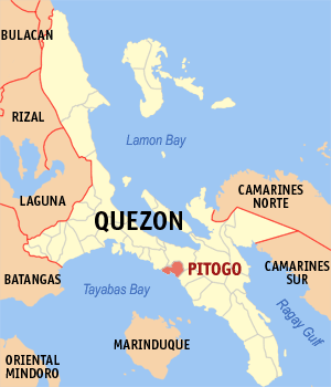 Map of Quezon showing the location of Pitogo